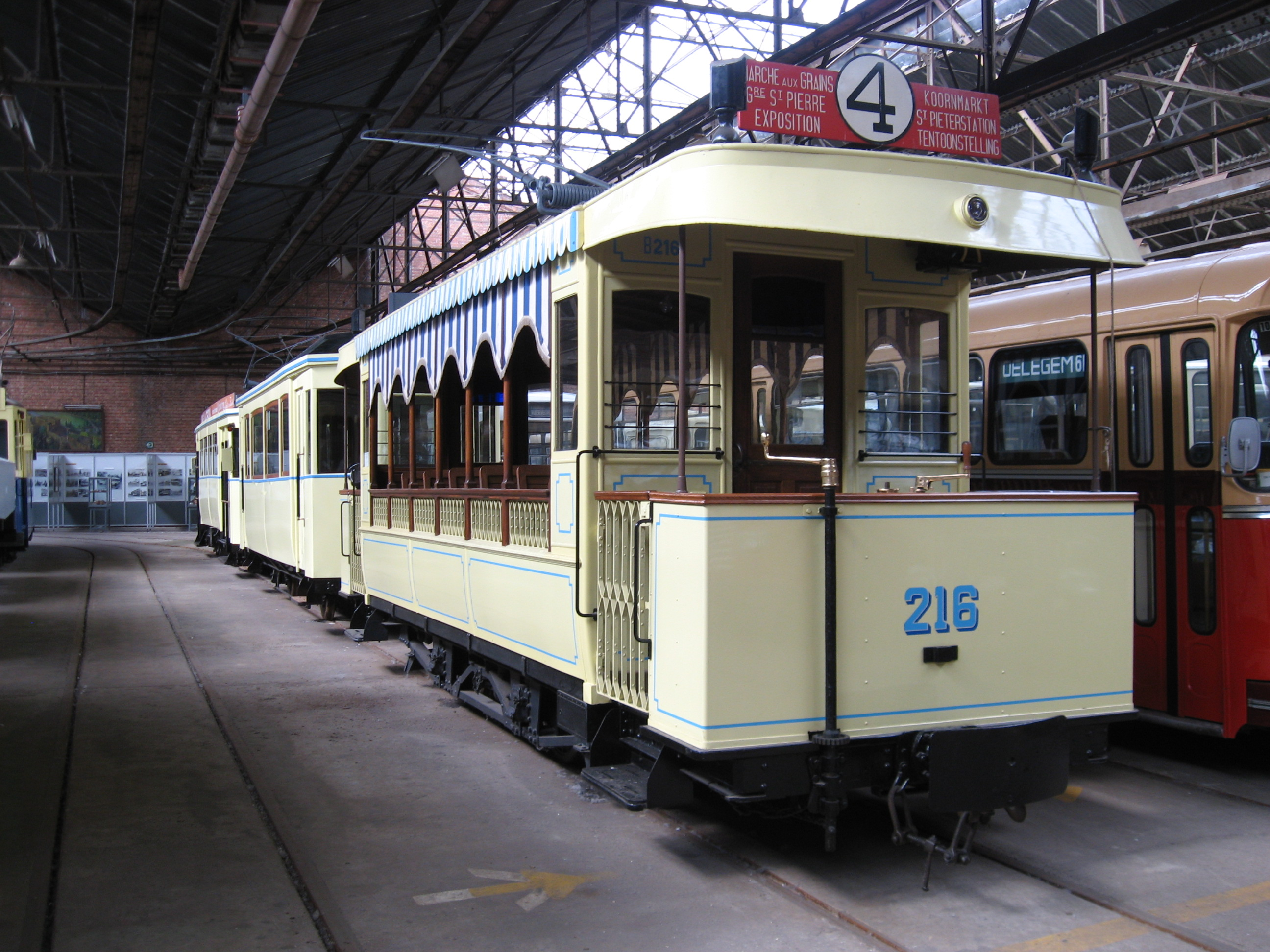 Open trailer of the old Ghent tram.